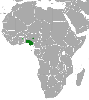 Nigerian Shrew (Crocidura nigeriae) range (green — extant, light green — possibly extant)